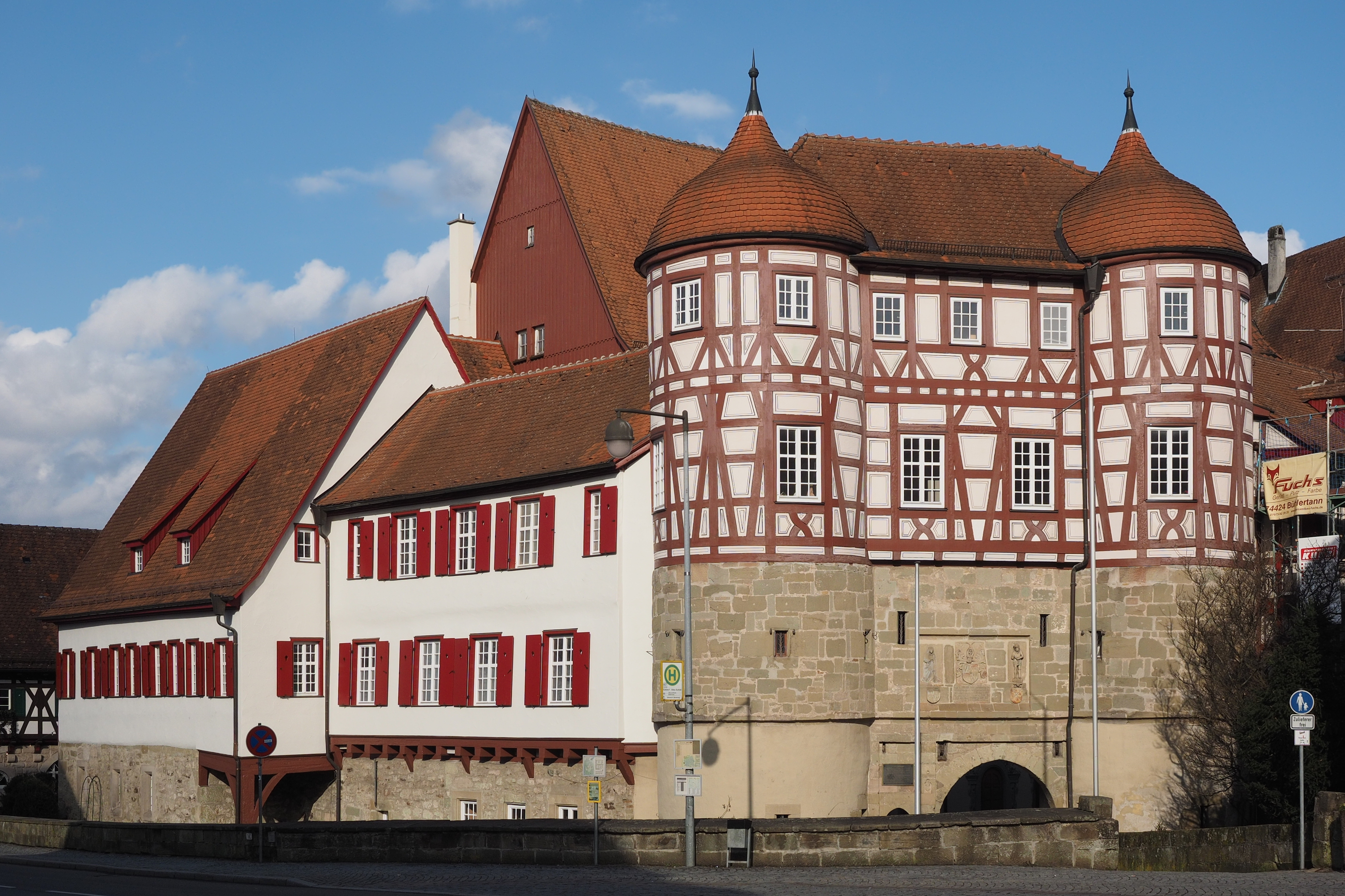 Altes Schloss Gaildorf, Germany